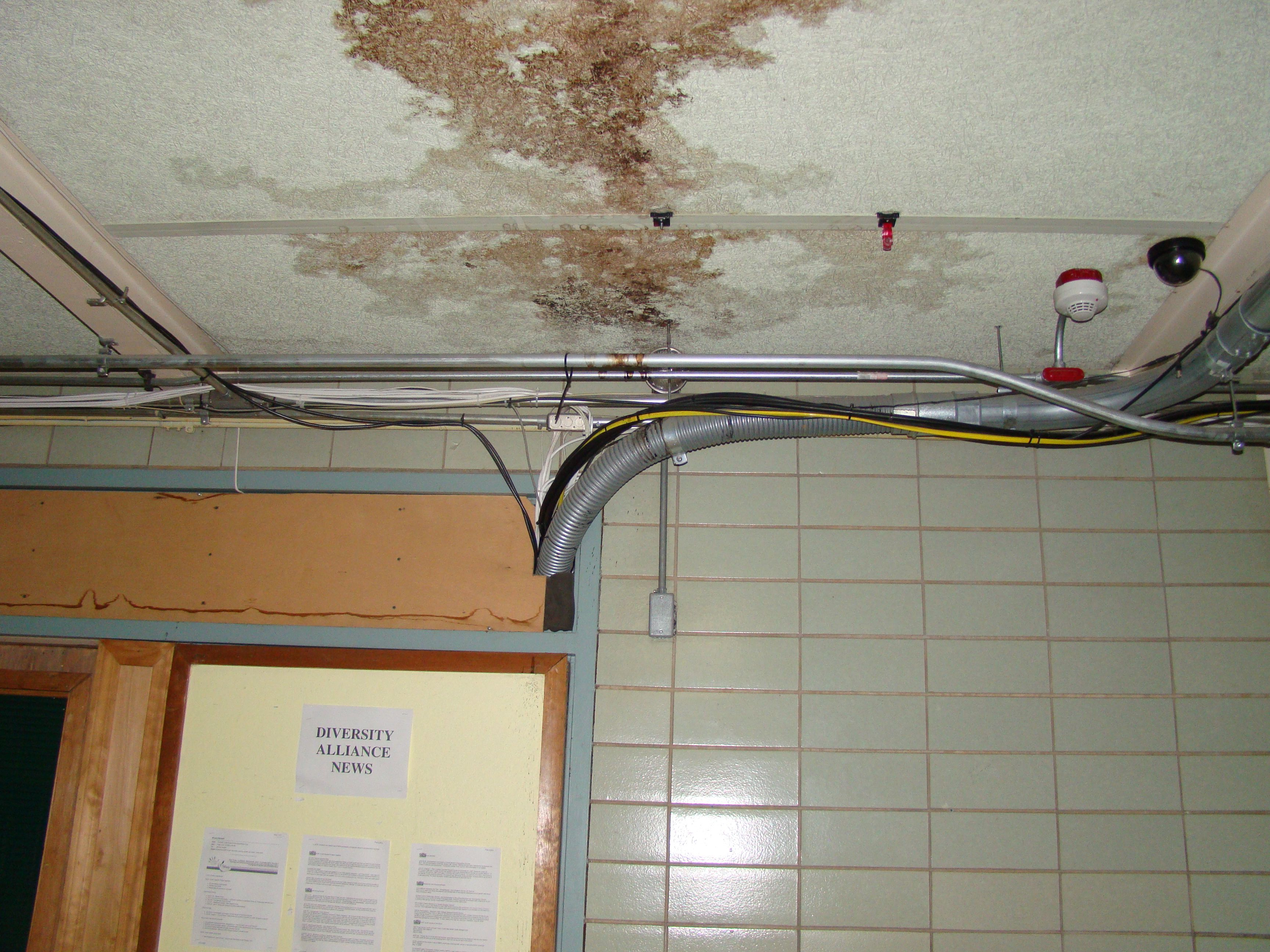 Old MERHS Ceilings